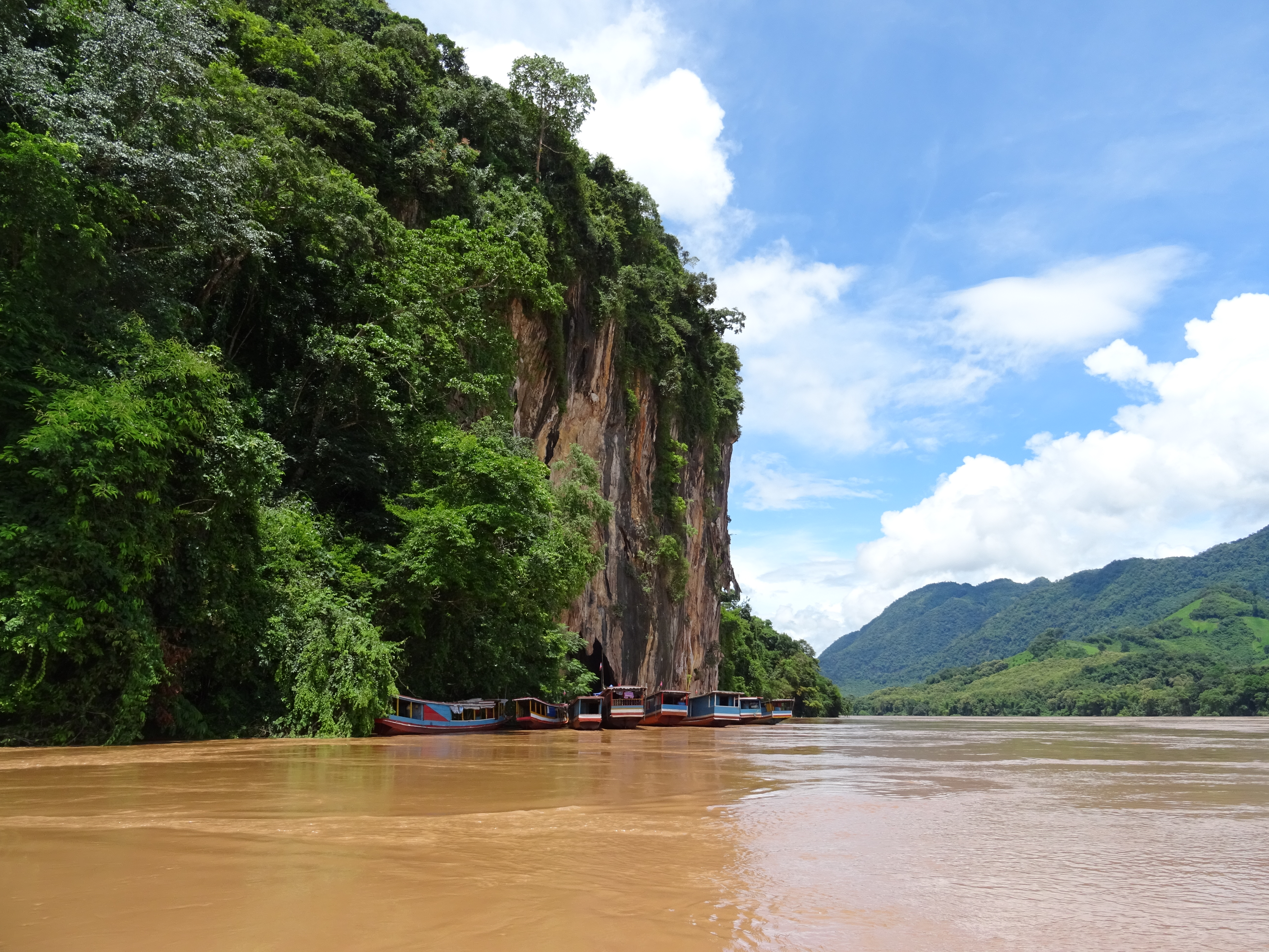 The Mekong and the Pak Ou lower cave